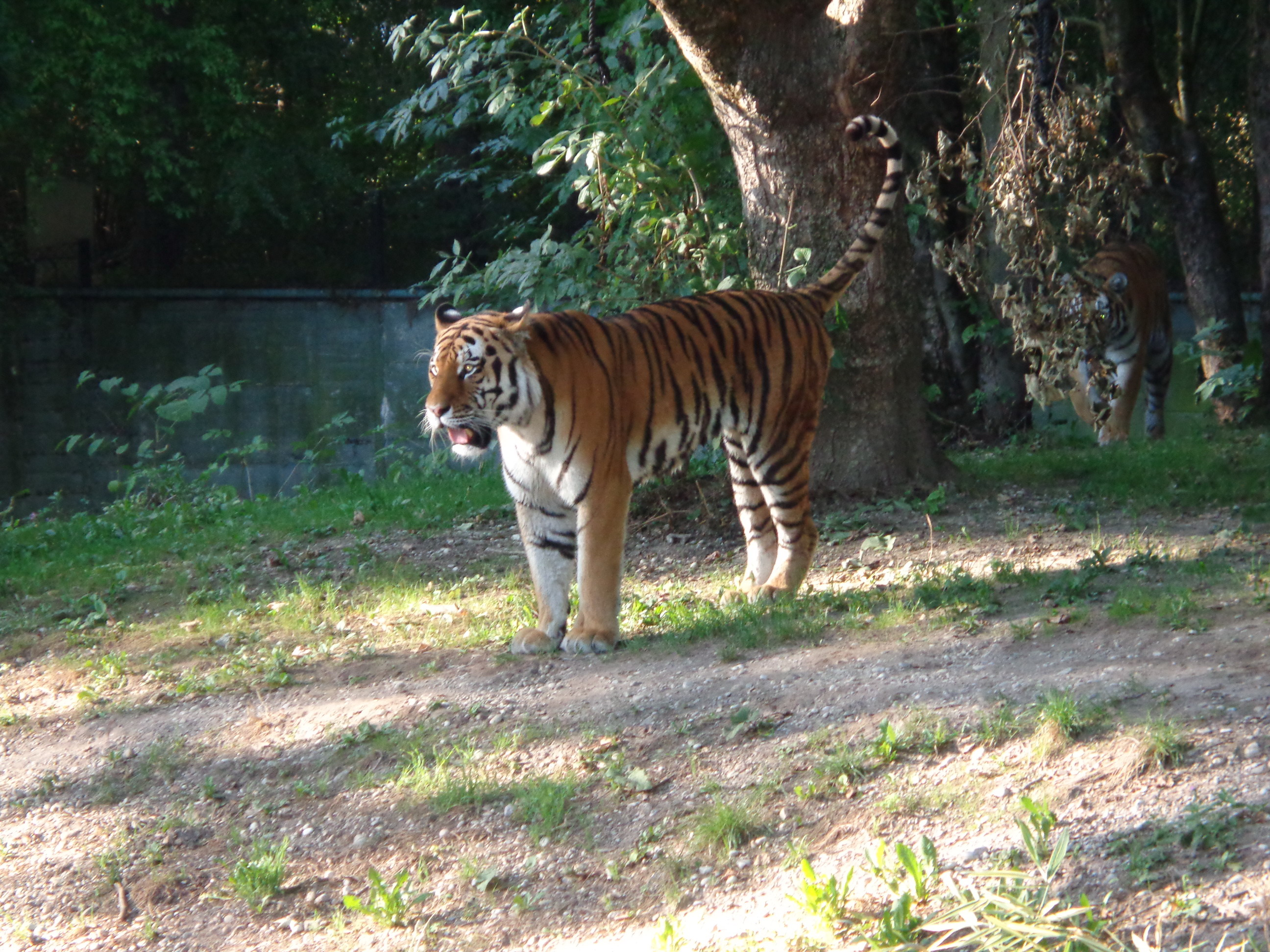 Two siberian tigers walking at the Hellabrunn Zoo, Munich, Germany